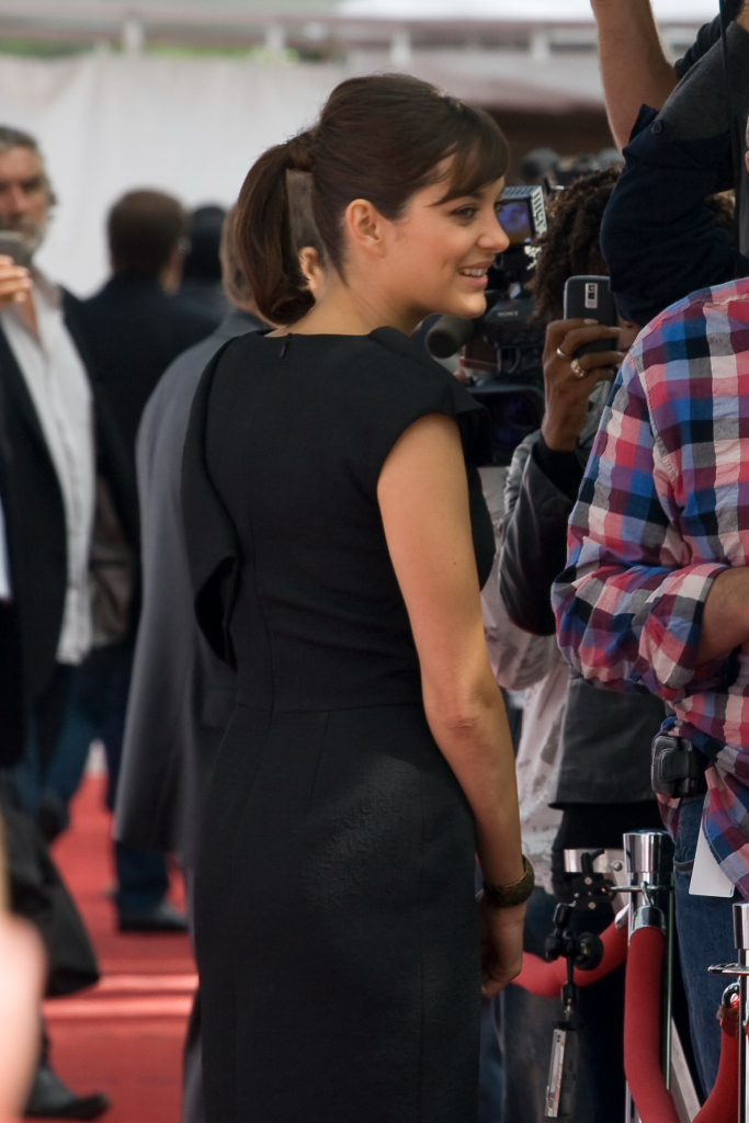 At the premiere of "Little White Lies", directed by Guillaume Canet, during the Toronto International Film Festival, 2010.